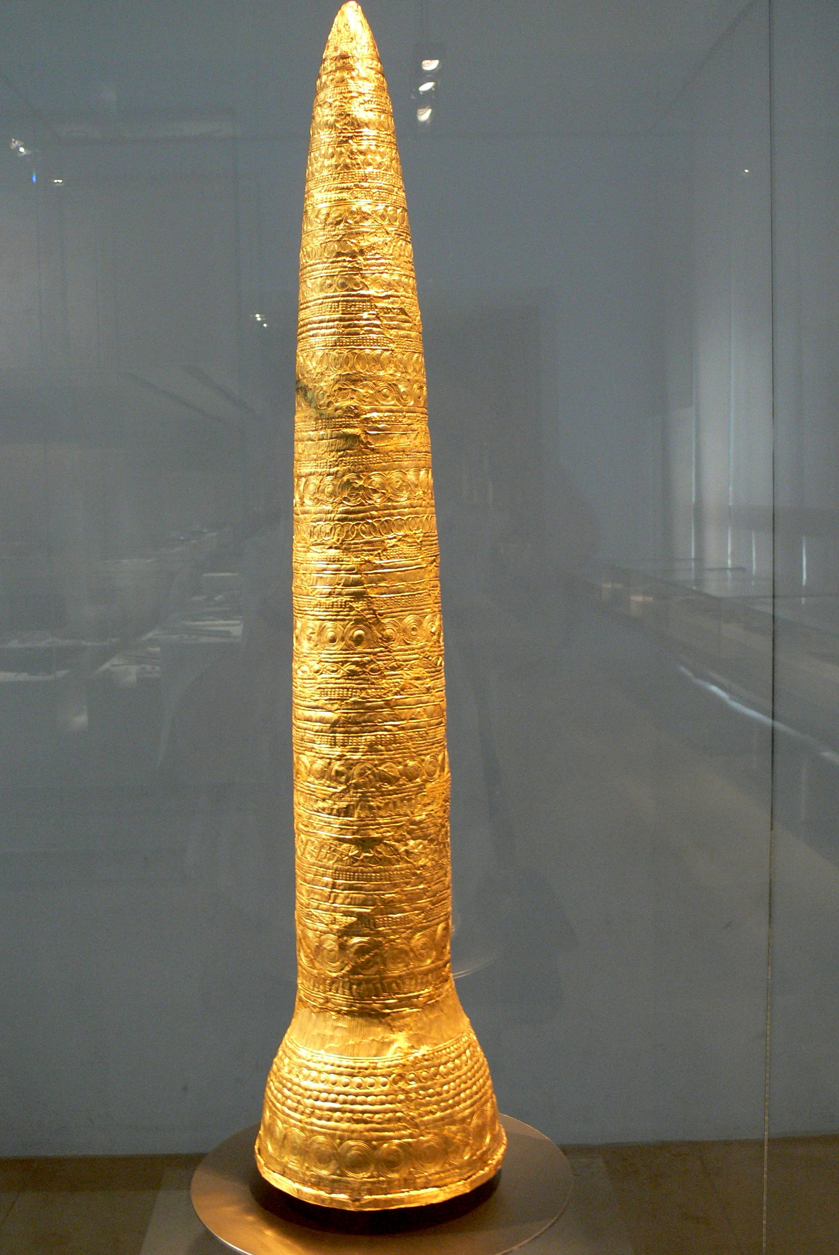 German National Museum ( Nuremberg / Germany ). Gold cone from Ezelsdorf-Buch. Urnfield culture, 11th-9th century BC.